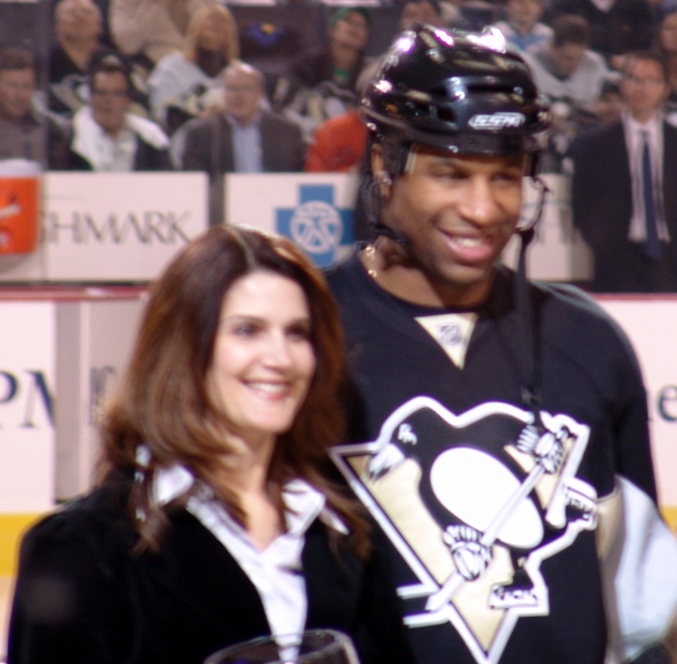 Pittsburgh Penguins enforcer Georges Laraque is presented with the Edward J. Debartolo Community Service Award during a pregame ceremony before facing the Philadelphia Flyers at Mellon Arena in Pittsburgh, PA. April 2, 2008.